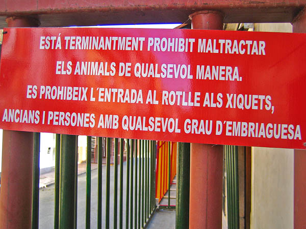 Notice forbidding mistreatment of the bull and drunkeness during the bull-running festivities in El Verger, county Marina Alta, Region of Valencia, Spain Avís que prohibeix el maltractament del bou durant les festes dels bous al carrer. El Verger, marina Alta, País Valencià